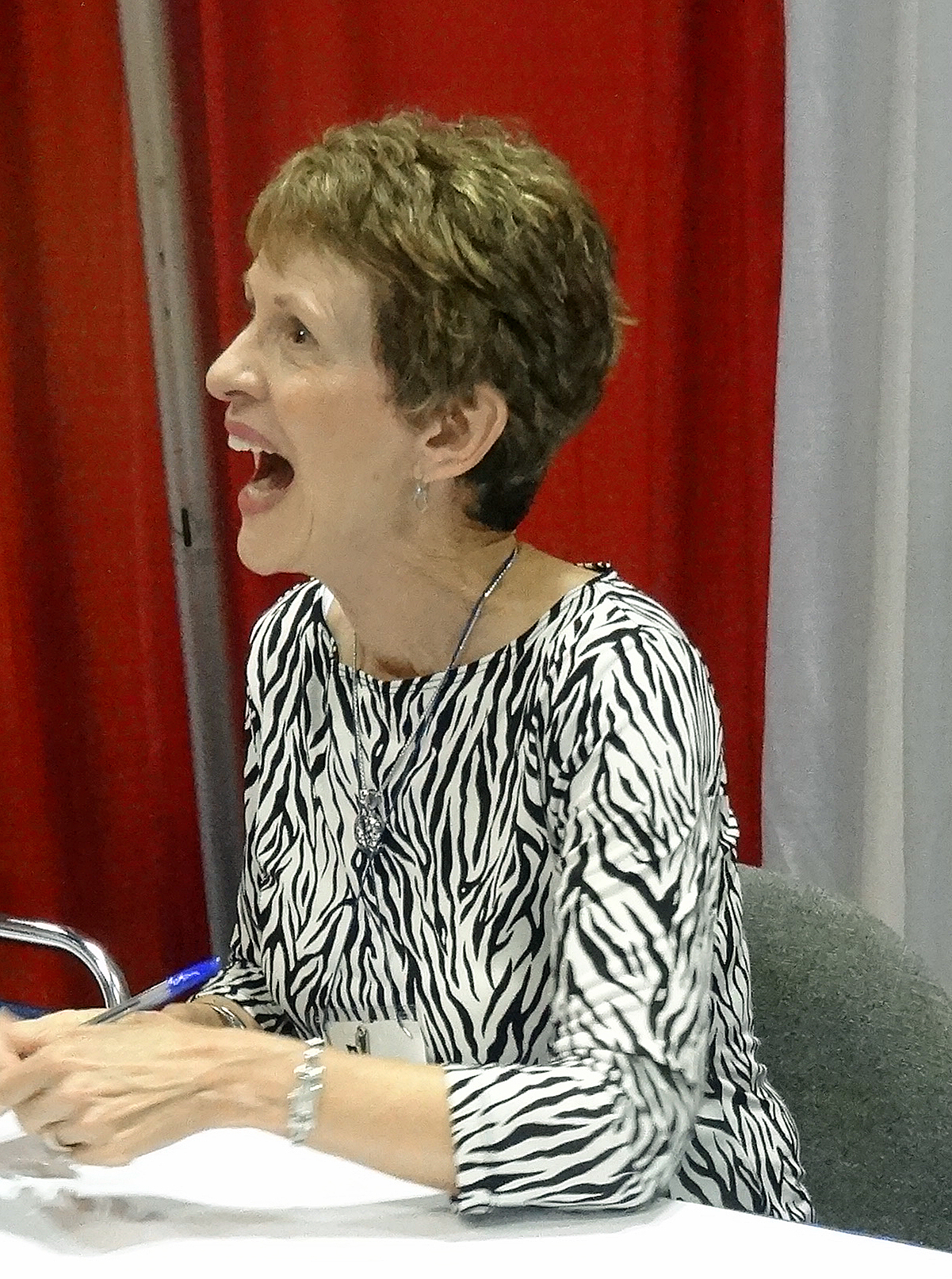 Susan Elizabeth Phillips, an American romance novelist.